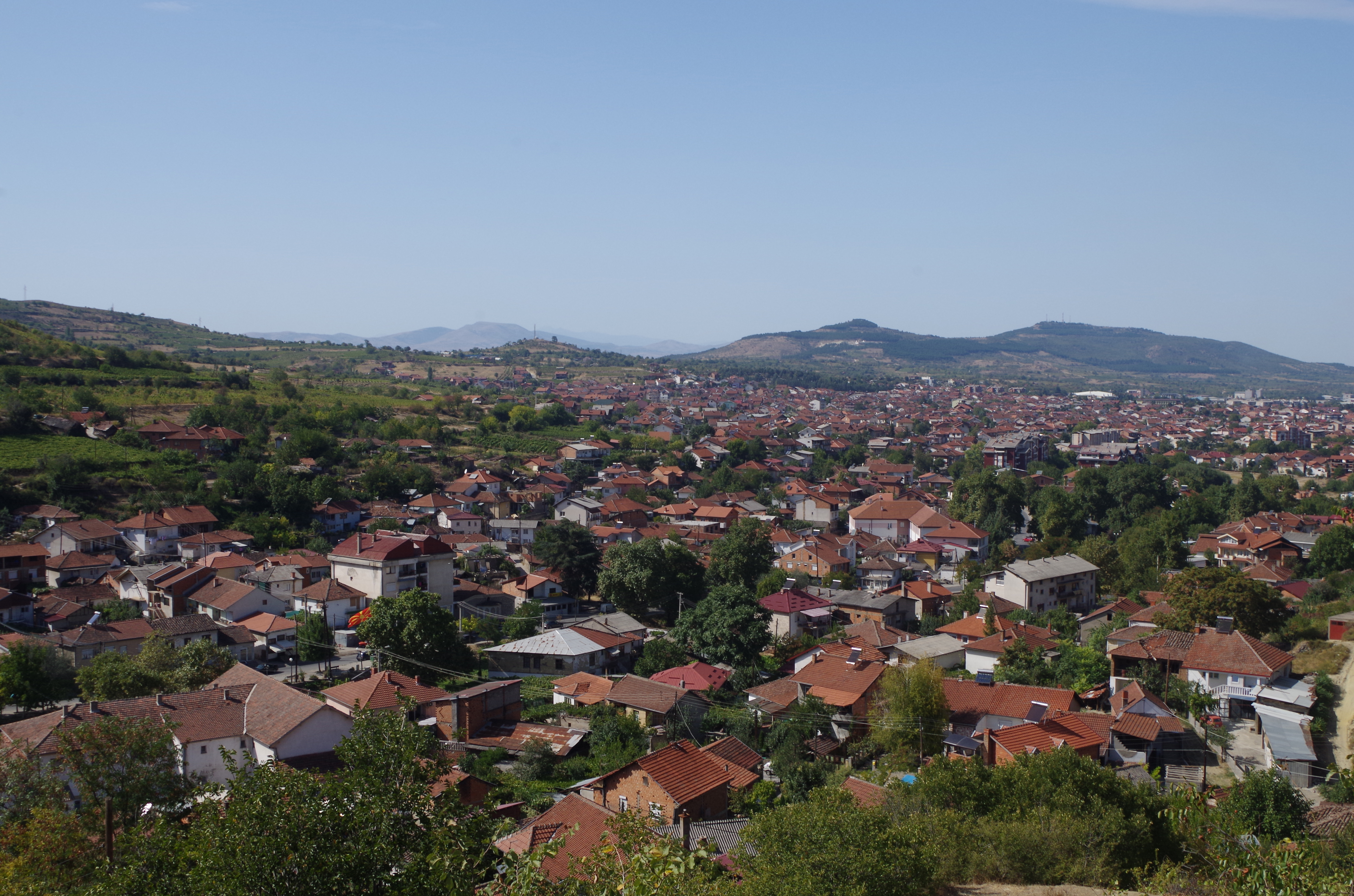 Panoramic view of the village of Vataša with Kavadarci in the background